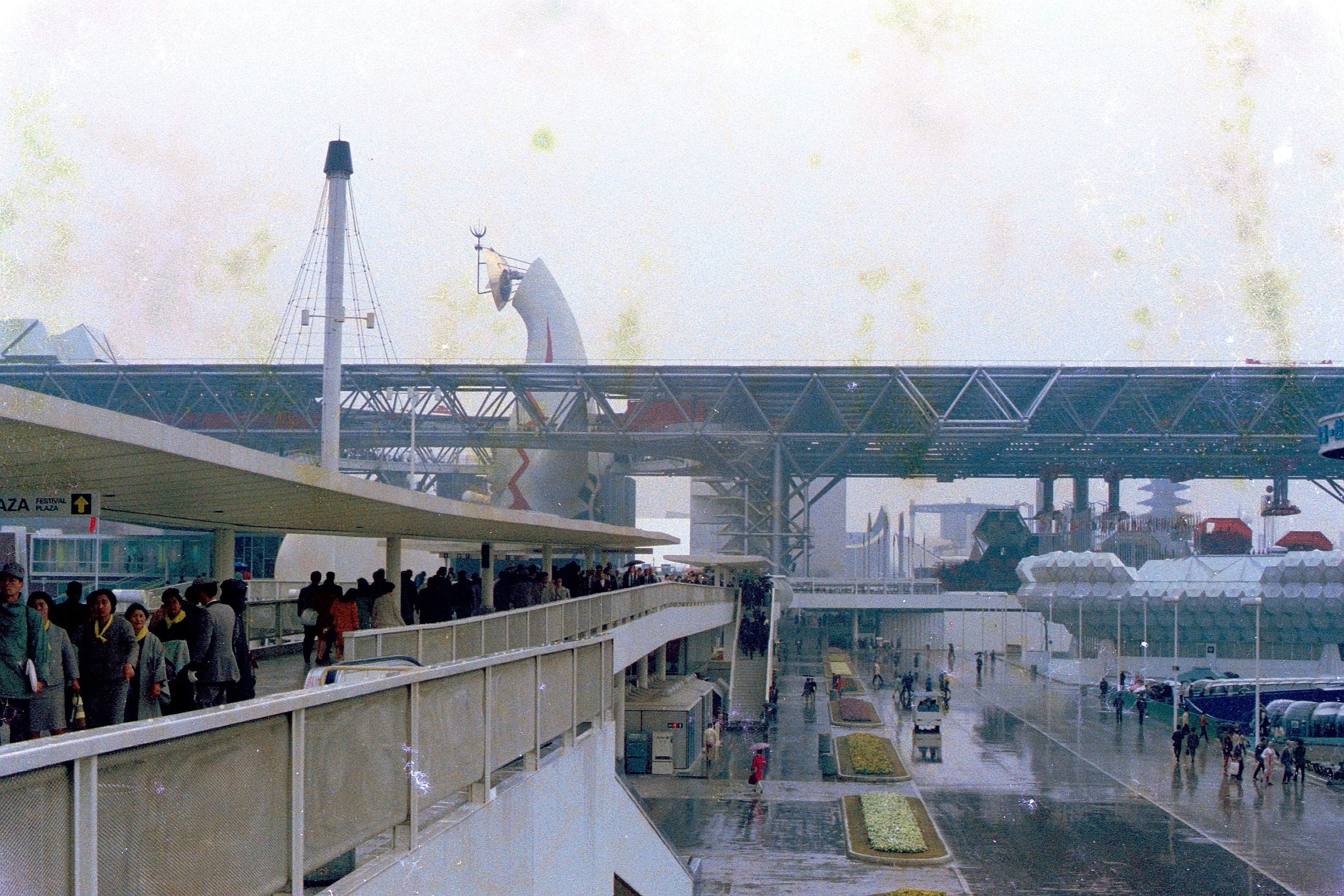 Festival Plaza Osaka Expo'70. An electric Daihatsu "Pavillion Car" can be seen in the center.